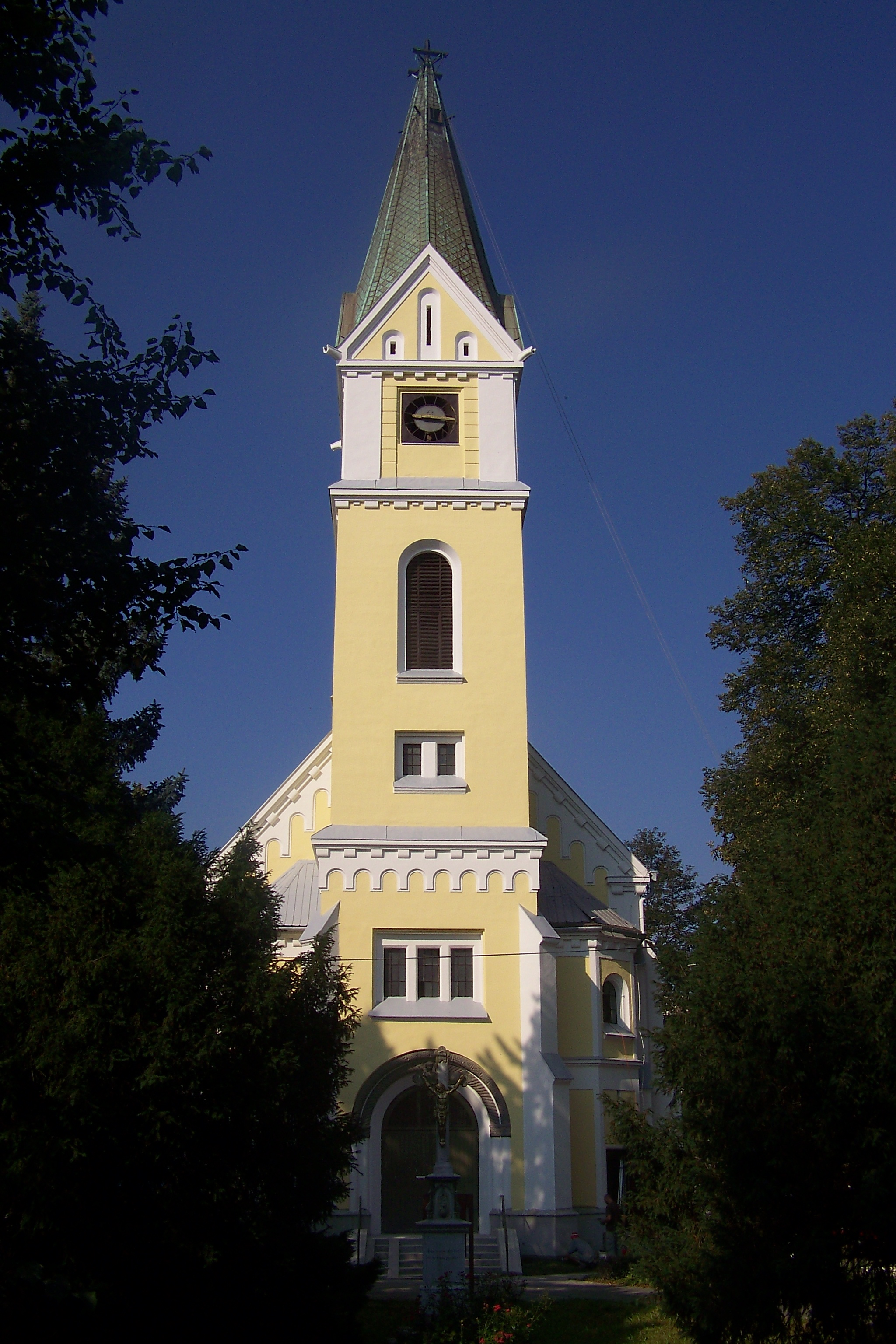 Photography of Saint Mary's church in Ostrava-Hrabůvka.